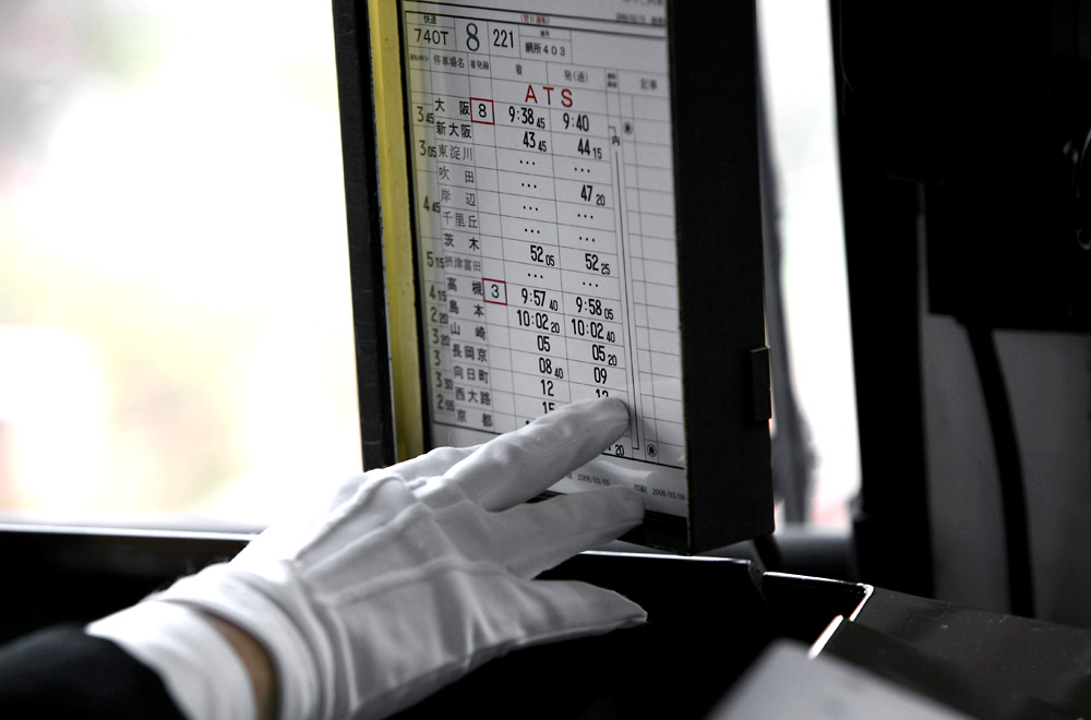 A railroad engineer's timetable